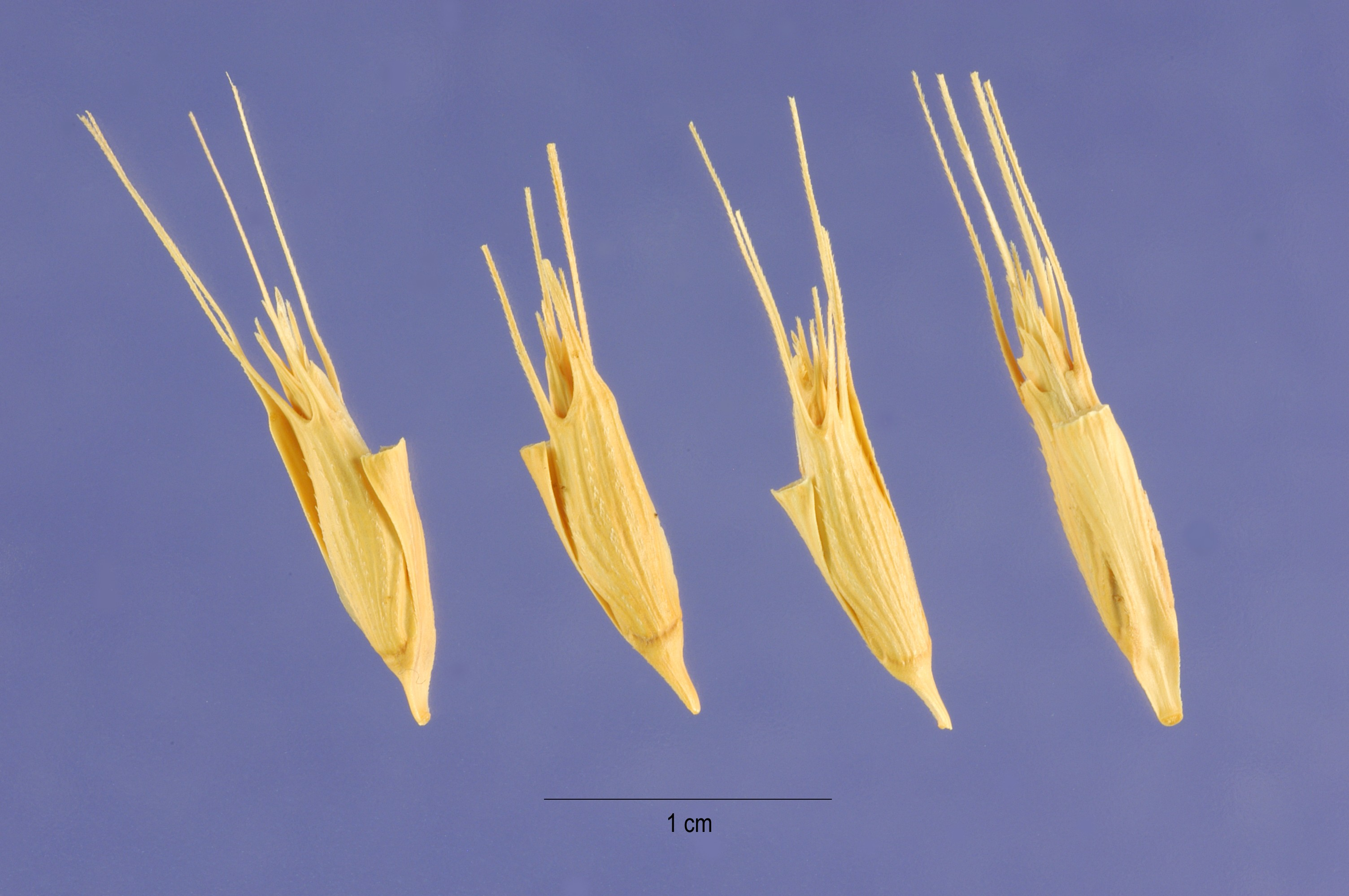 Barbed Goatgrass. Seeds from Afghanistan.